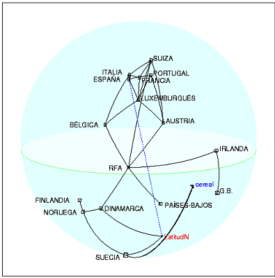 iconographie des corrélations